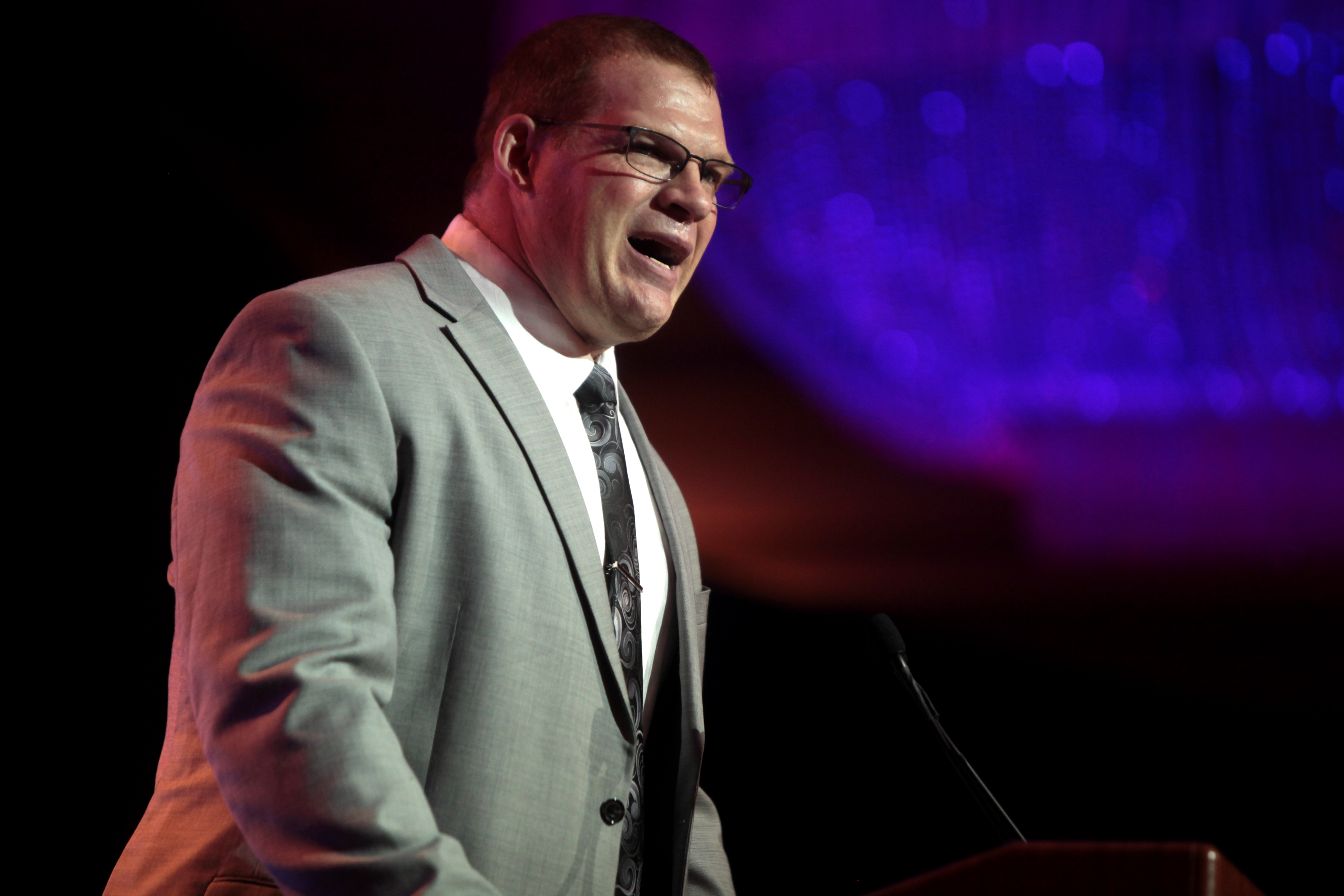 Glenn Jacobs speaking at an event in Alexandria, Virginia